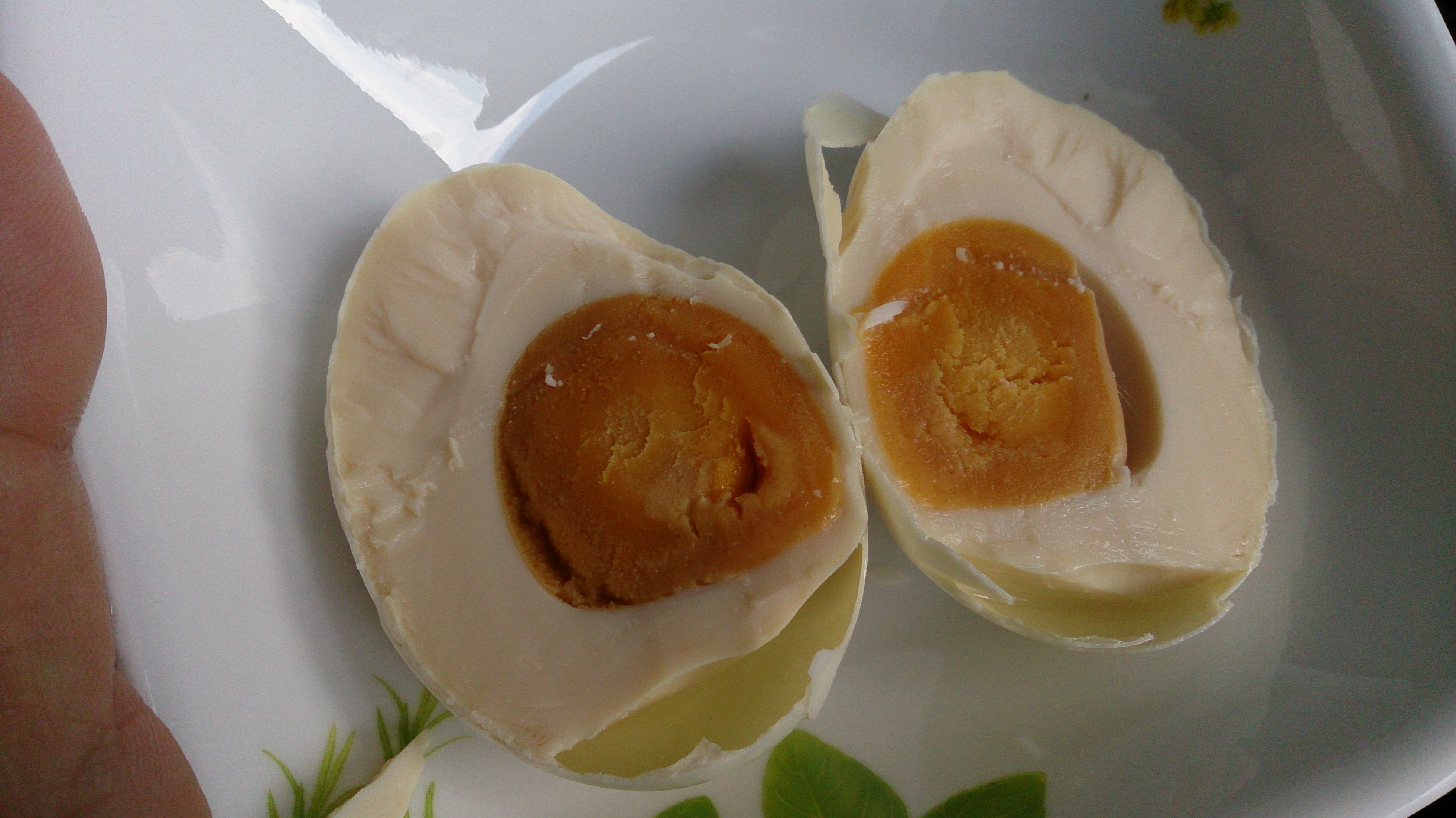 good with plain porridge